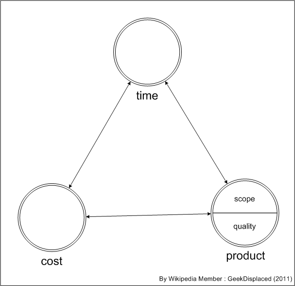 Diagram based on traditional Project Management Constraint Triangle, suggested personal evolution or interpretation.